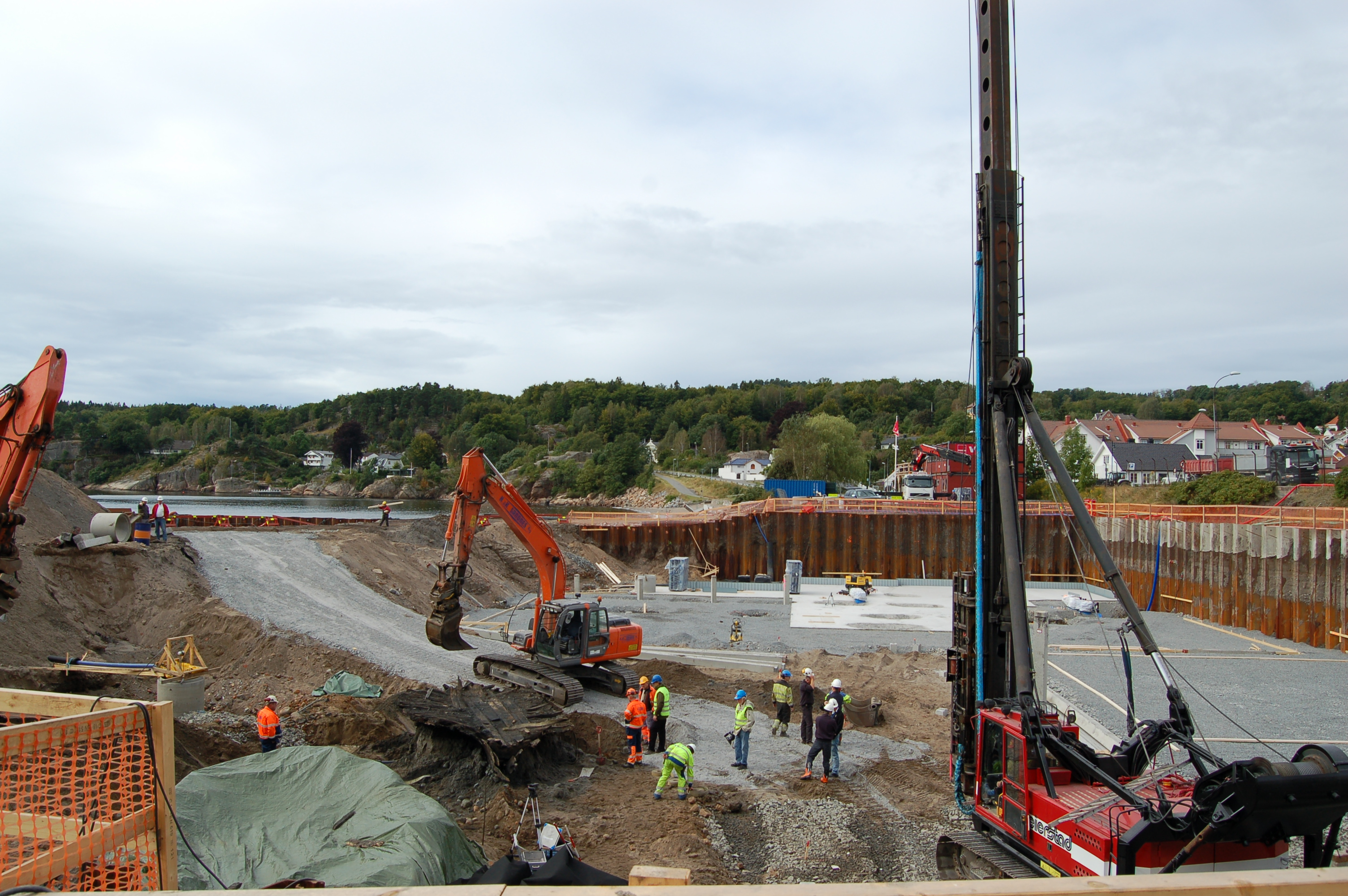 Shipswreck Batteristranda, Langestrand, Larvik, Norway. 1700 and 1728.